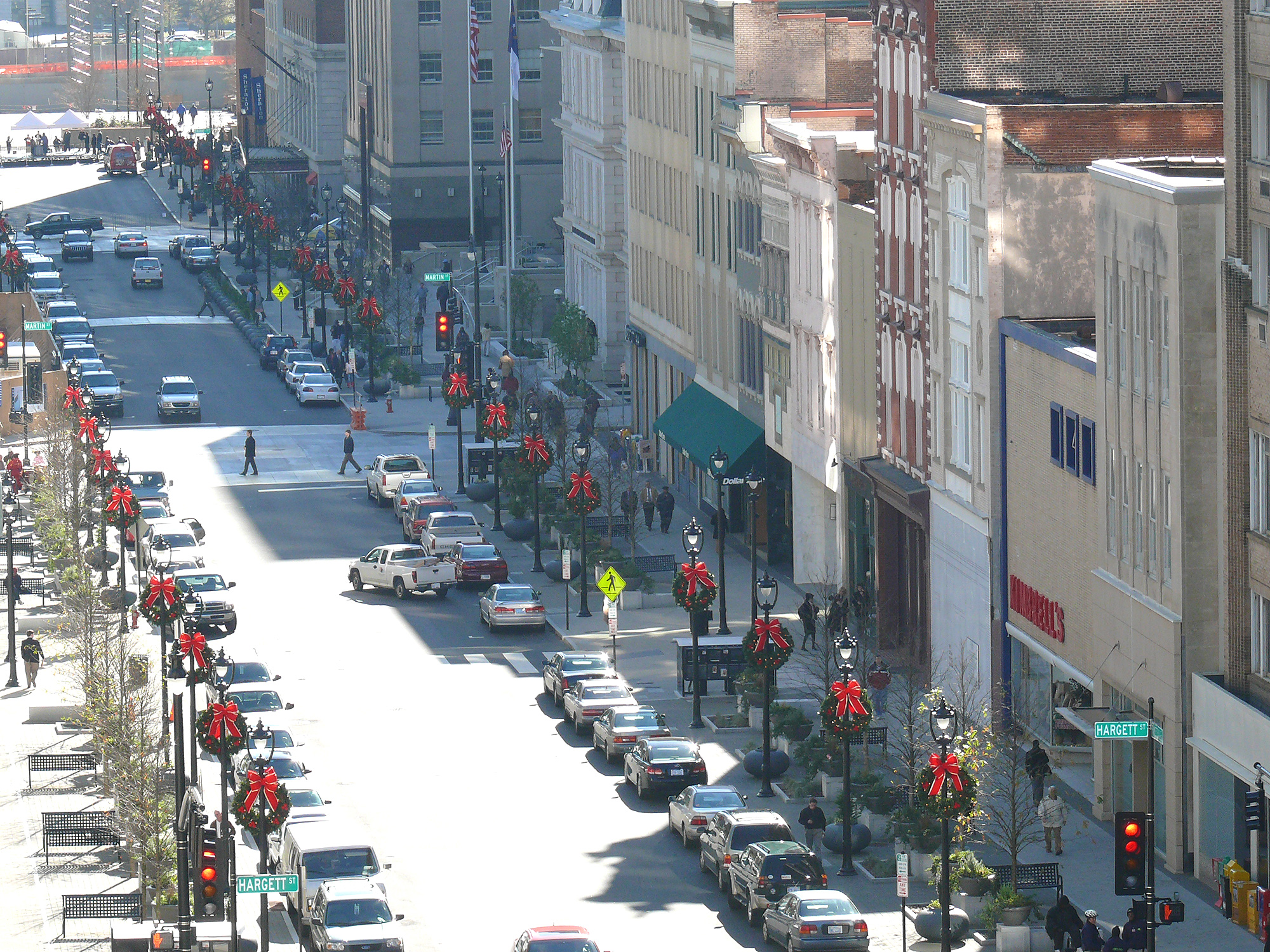 The newly-reopened Fayetteville Street in downtown Raleigh, NC, USA. Photo taken from the roof of the North Carolina Justice Building with a Panasonic Lumix DMC-FZ50.